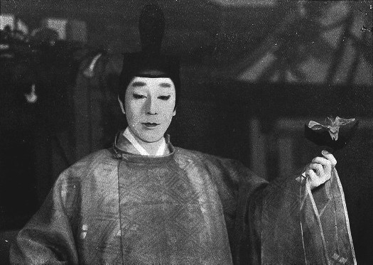 Ebizō Ichikawa IX (1909–65) as Hikaru Genji